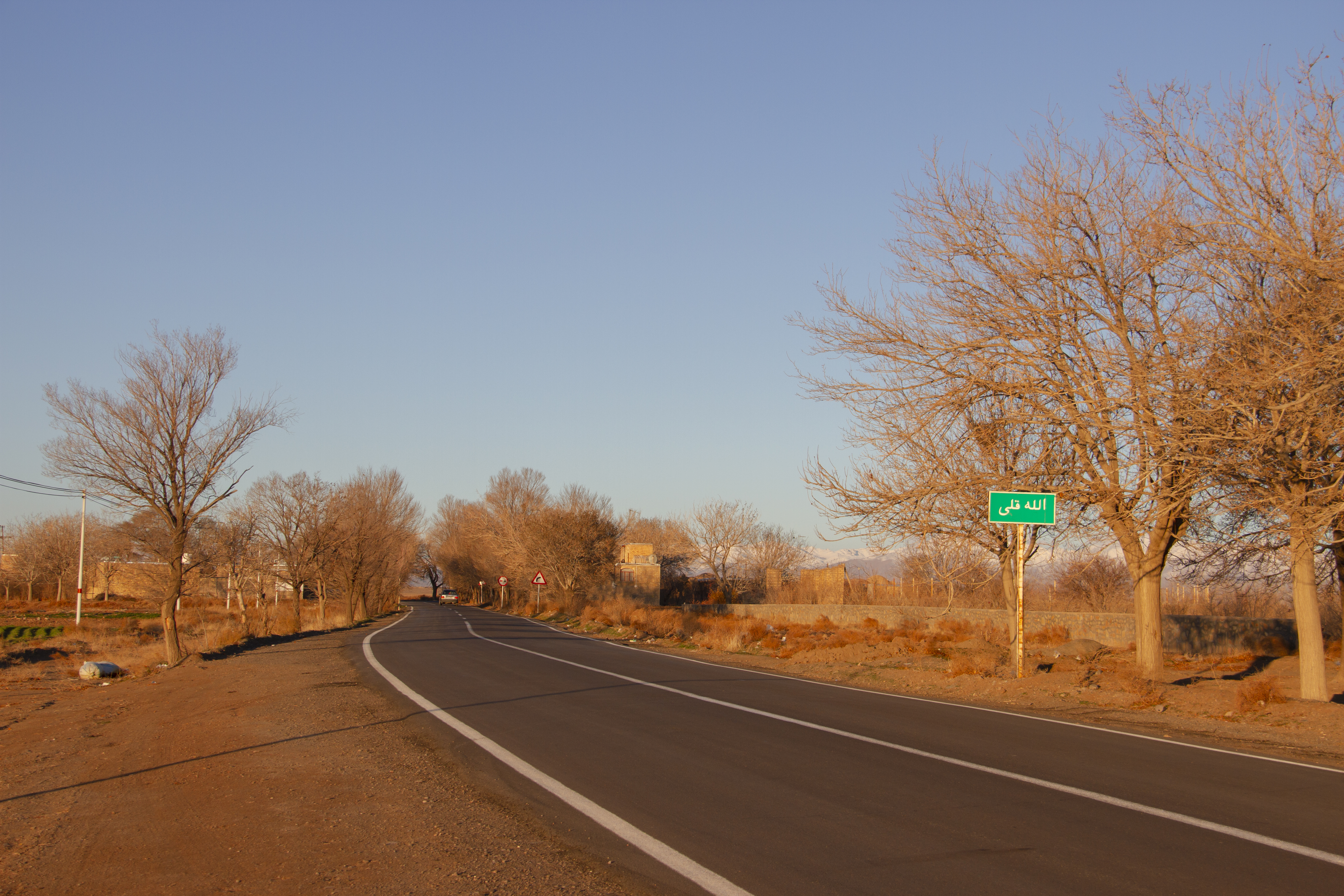 Qom Province, is one of the 31 provinces of Iran with 11,237 km², covering 0.89% of the total area in Iran.